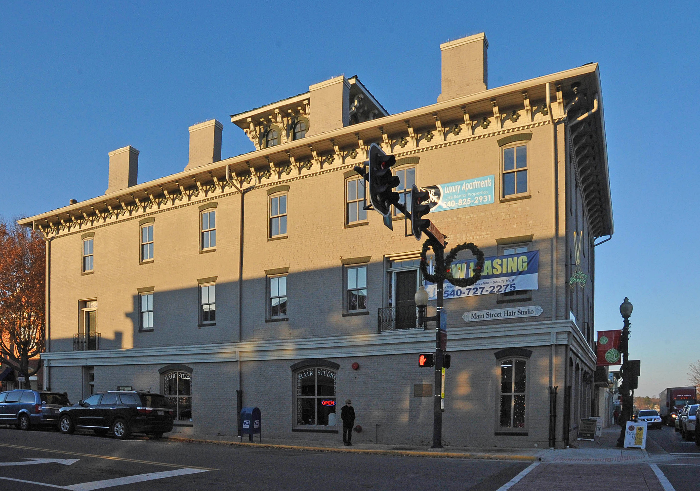 HOME LOCATED IN CULPEPER . THE ORIGINAL SECTION WAS BUILT ABOUT 1820, AND ENLARGED TO ITS PRESENT SIZE ABOUT 1860. IT IS A THREE-STORY, FIVE BAY BY SEVEN BAY, BRICK BUILDING IN THE STYLE TOWNHOUSE. IT WAS ORIGINALLY THREE BAYS DEEP, BUT ENLARGED TO SEVEN BAYS JUST BEFORE THE AMERICAN CIVIL WAR. IT WAS BUILT BY REVOLUTIONARY GENERAL EDWARD STEVENS, THEN PURCHASED BY THE FATHER OF GENERAL A. P. HILL IN 1832. IT HOUSED A DWELLING AND STORE. THE HILL FAMILY SOLD THE PROPERTY IN 1862